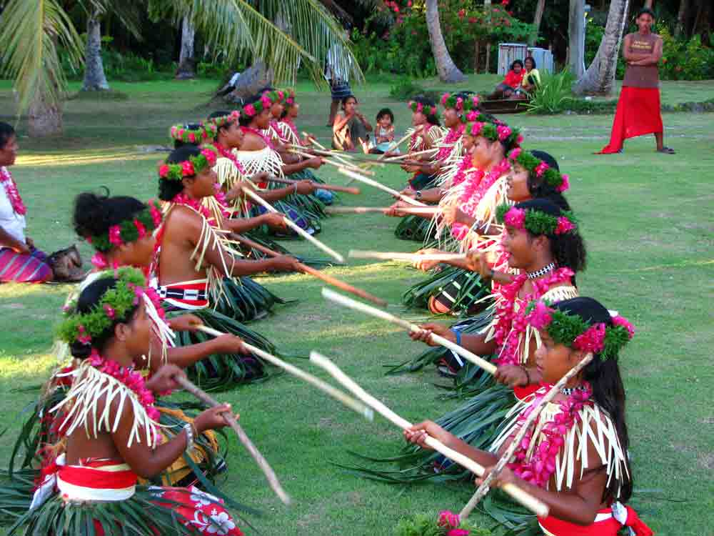 This is a picture I took while staying on the island on July 2008. The ceremony in was arranged by the island chief for us.